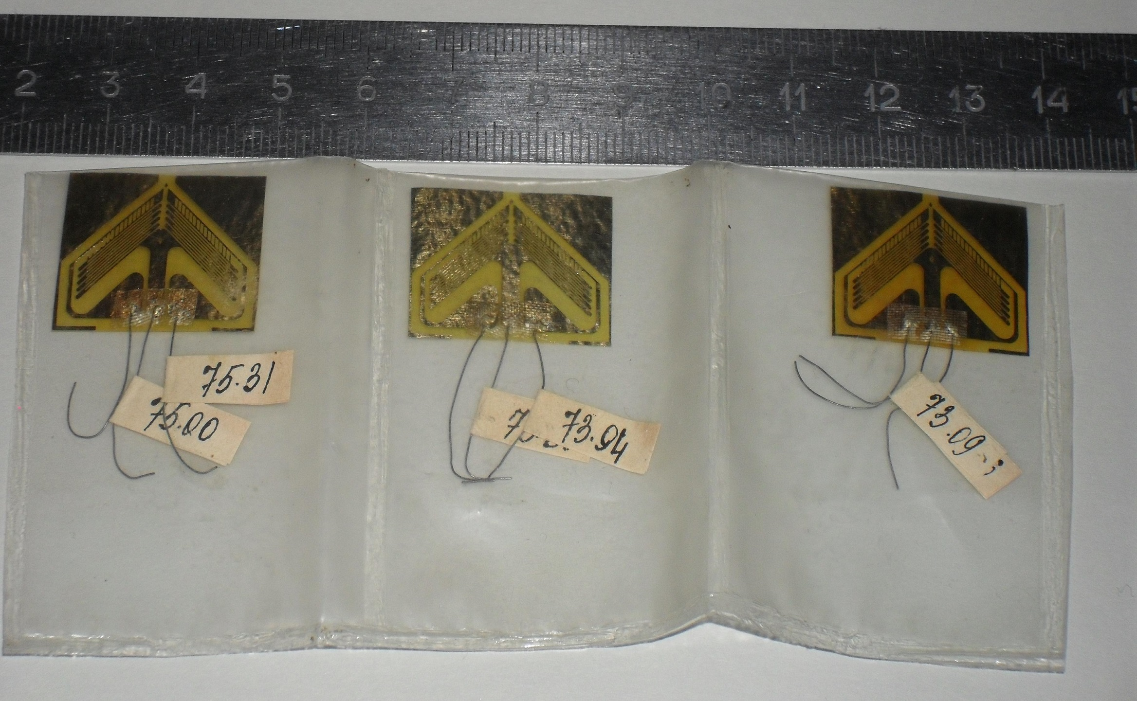 Strain gauges